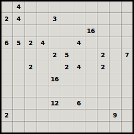 start of a shikaku game